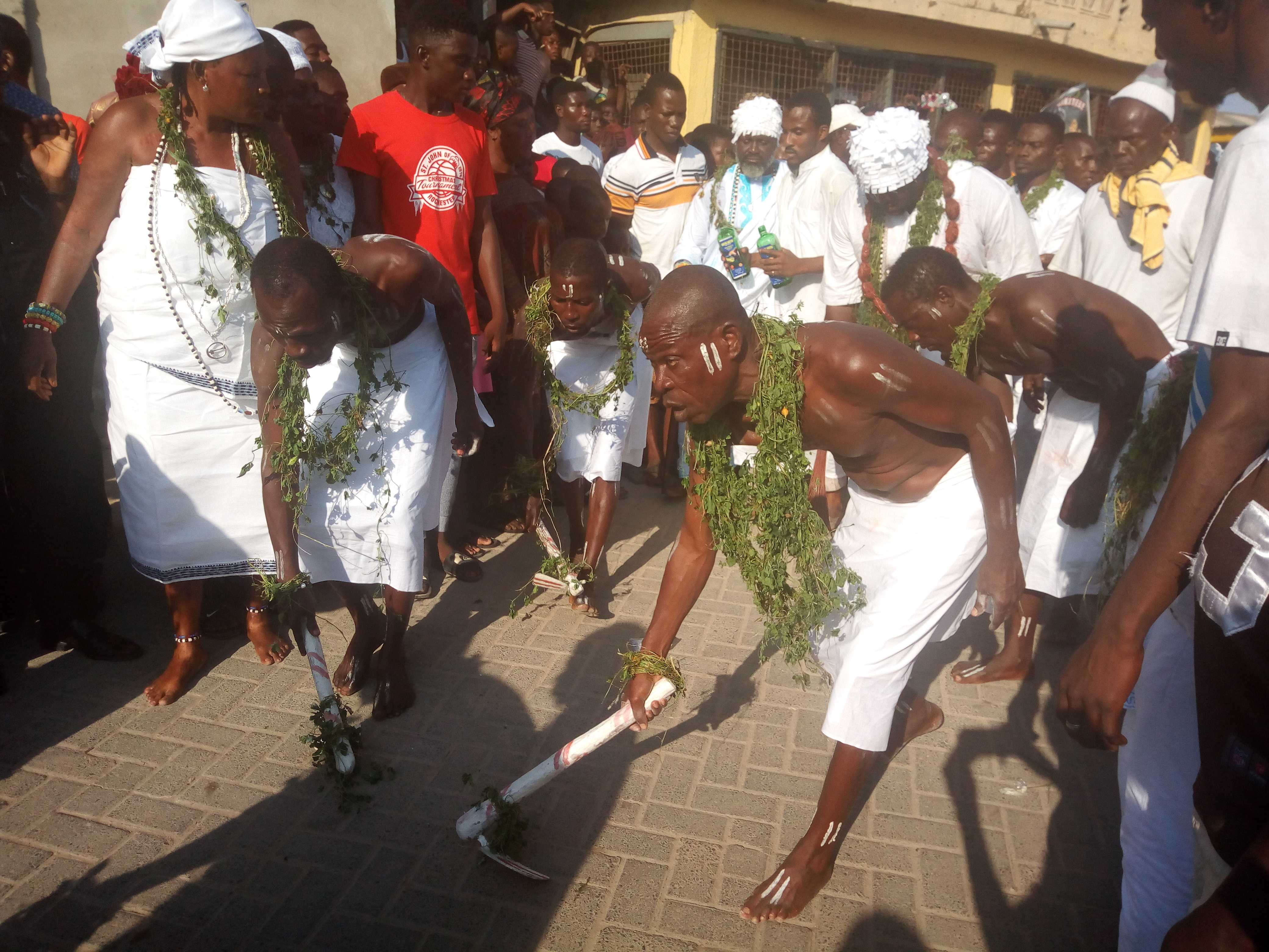 Teshie Homowo ban on noise making ceremony